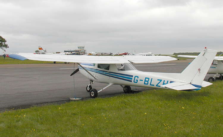 1985 Cessna F152 (G-BLZH) at Kemble Airfield, Gloucestershire, England in May 2003. Taken by Adrian Pingstone and released to the public domain.